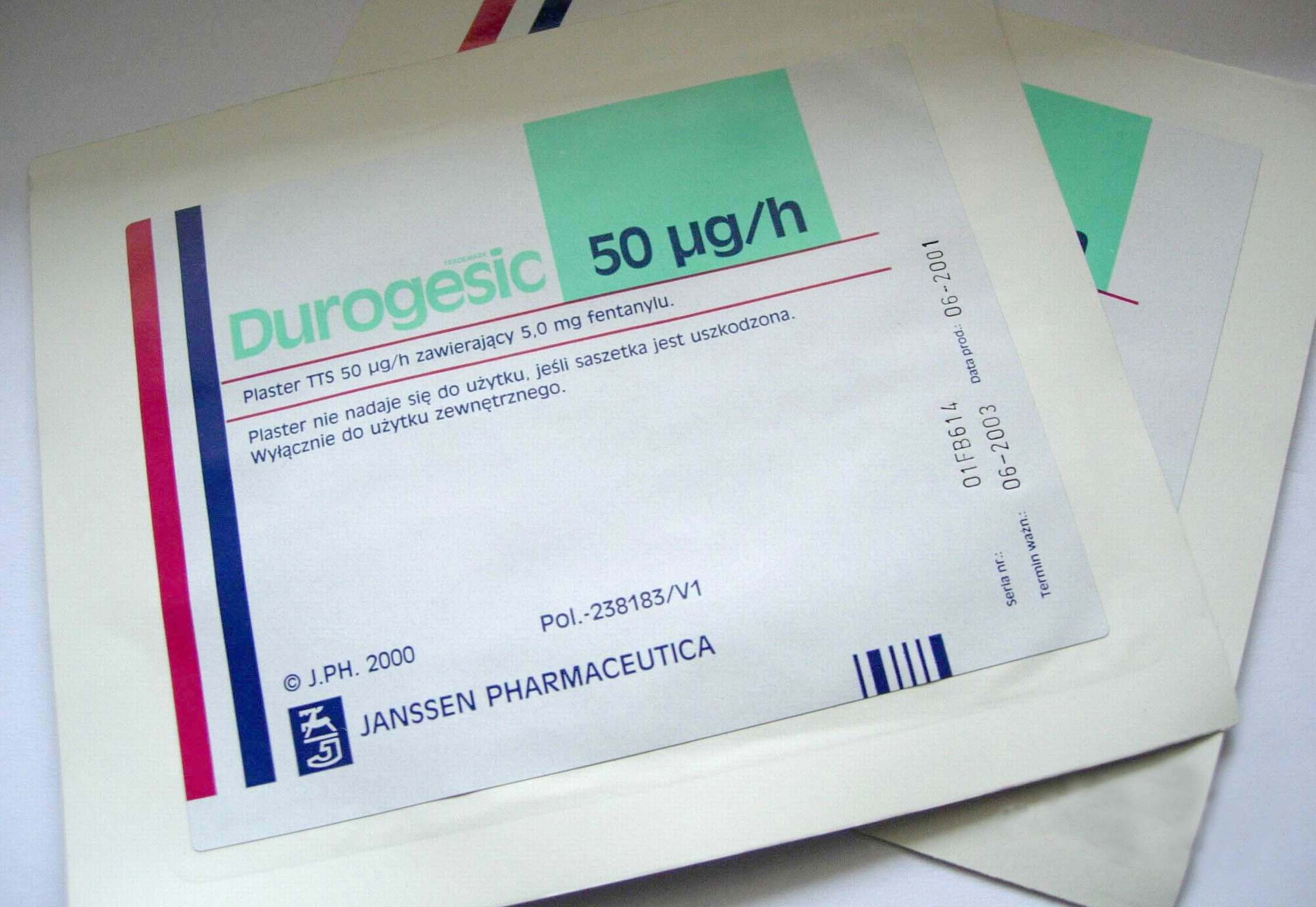 Plasters Durogesic, 50ug